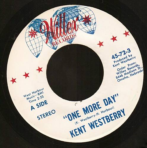 One More Day by Kent Westberry, Willex [year unknown].